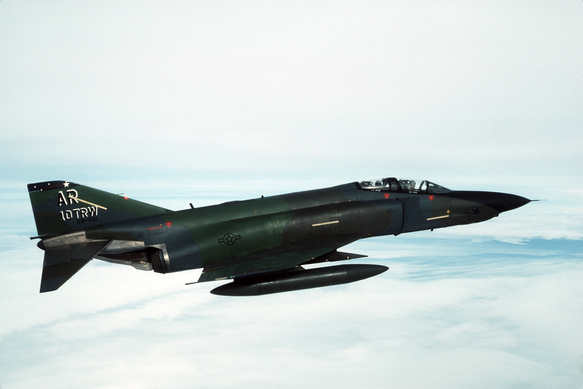 An air-to-air right side view of a 1st Tactical Reconnaissance Squadron RF-4C Phantom aircraft en route to Royal Air Force Alconbury, England.